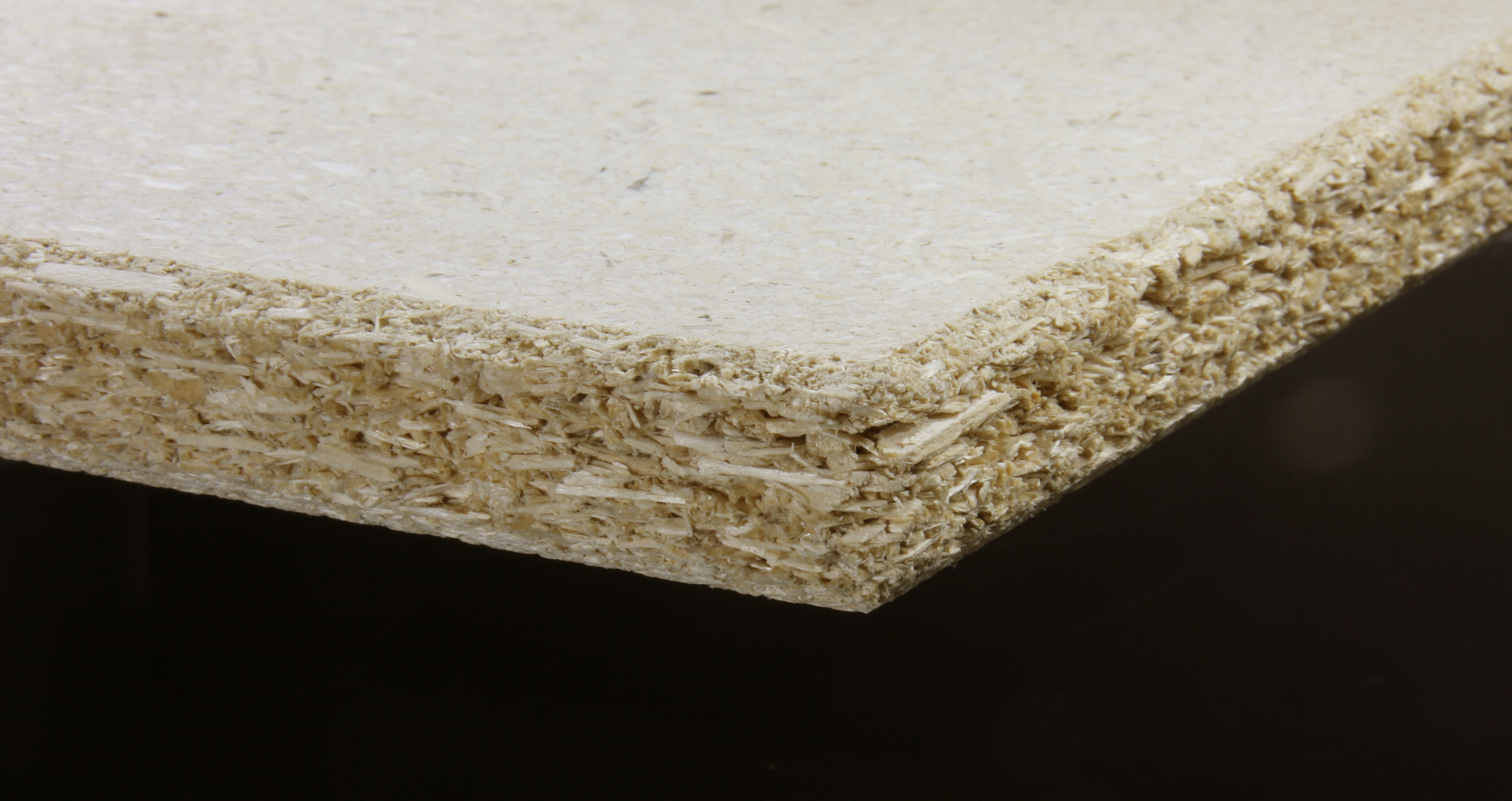 Particle board made from hemp shives